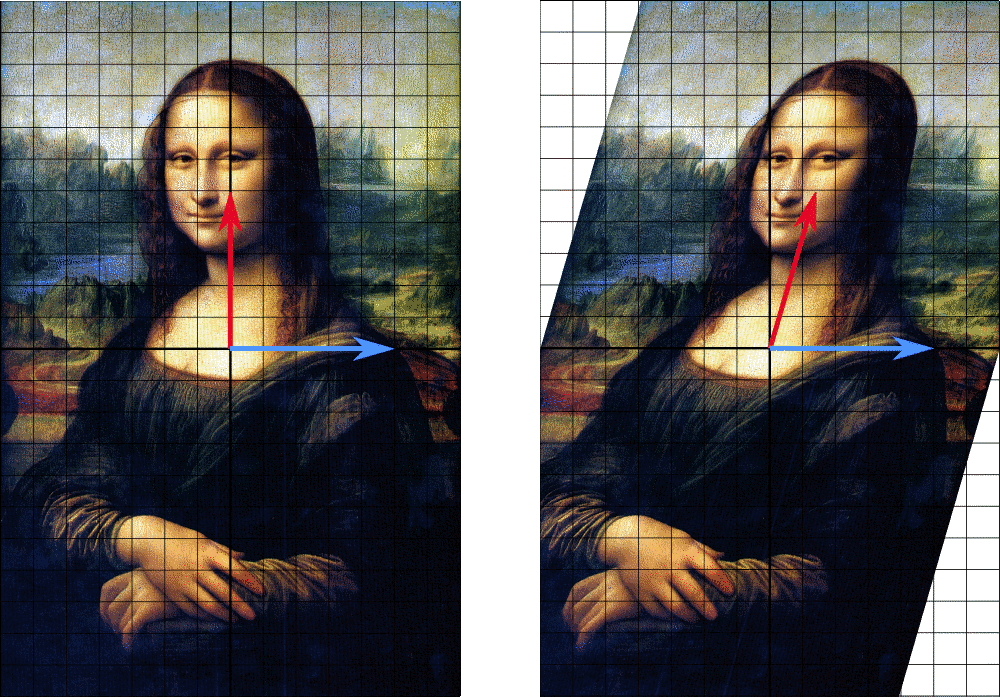 Mona Lisa with shear, eigenvector, and grid.